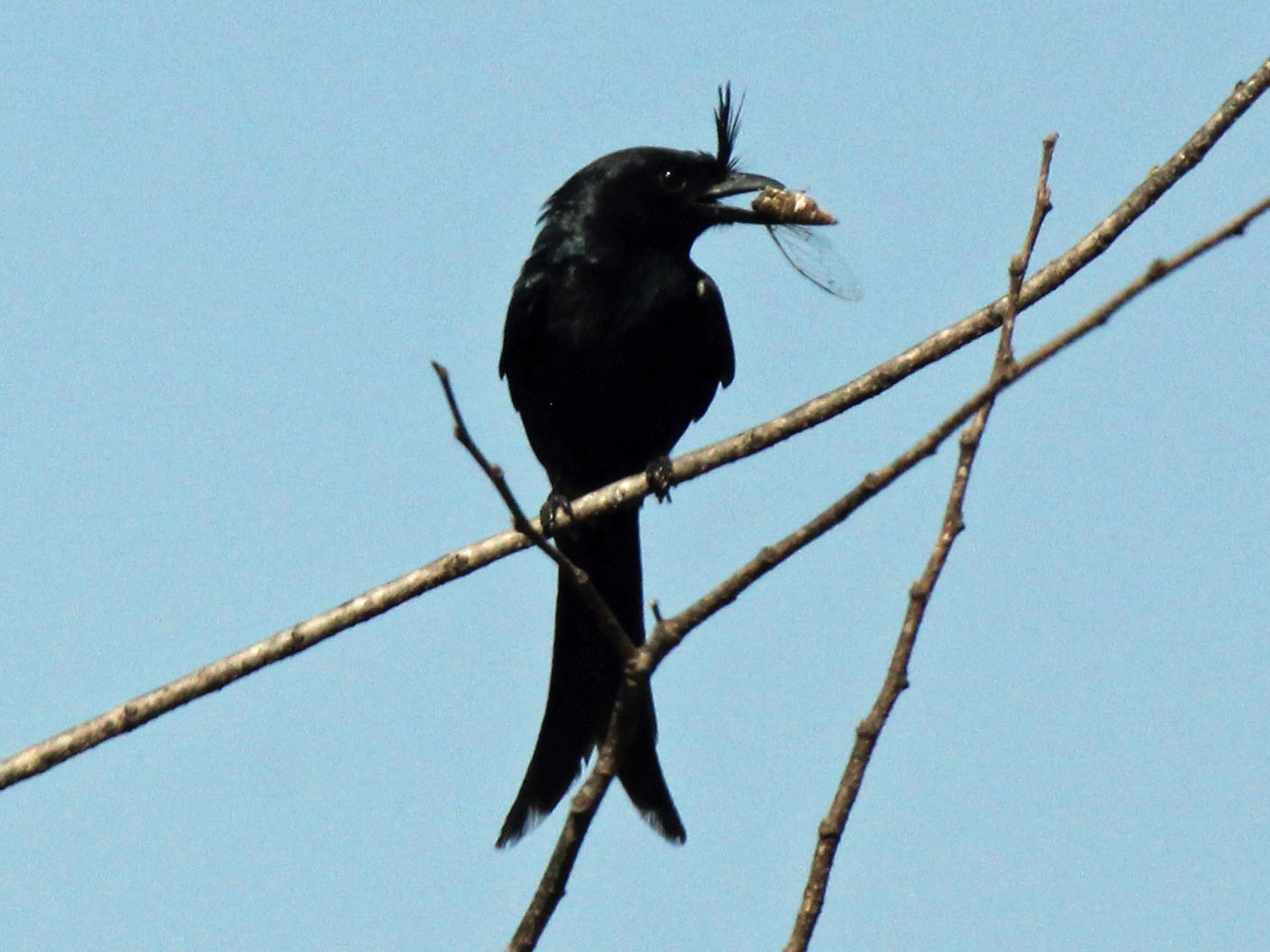 Crested Drongo (Dicrurus forficatus) - Madagascar